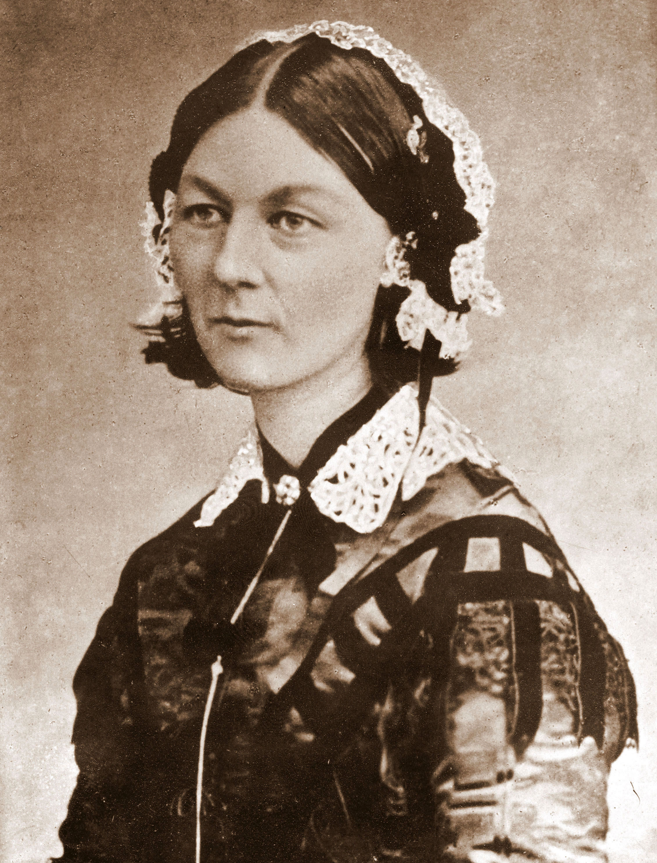 Florence Nightingale from Carte de Visite